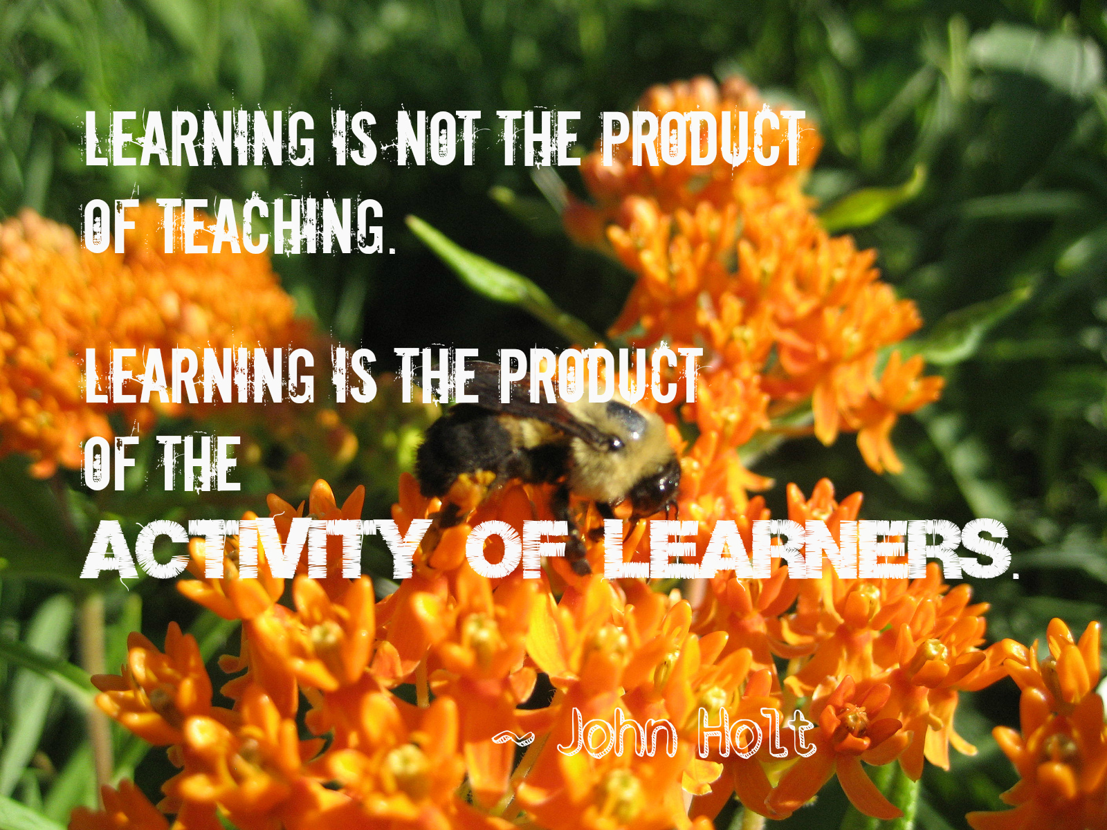 Quotation from John Holt that Learning is the product of the activity of learners.